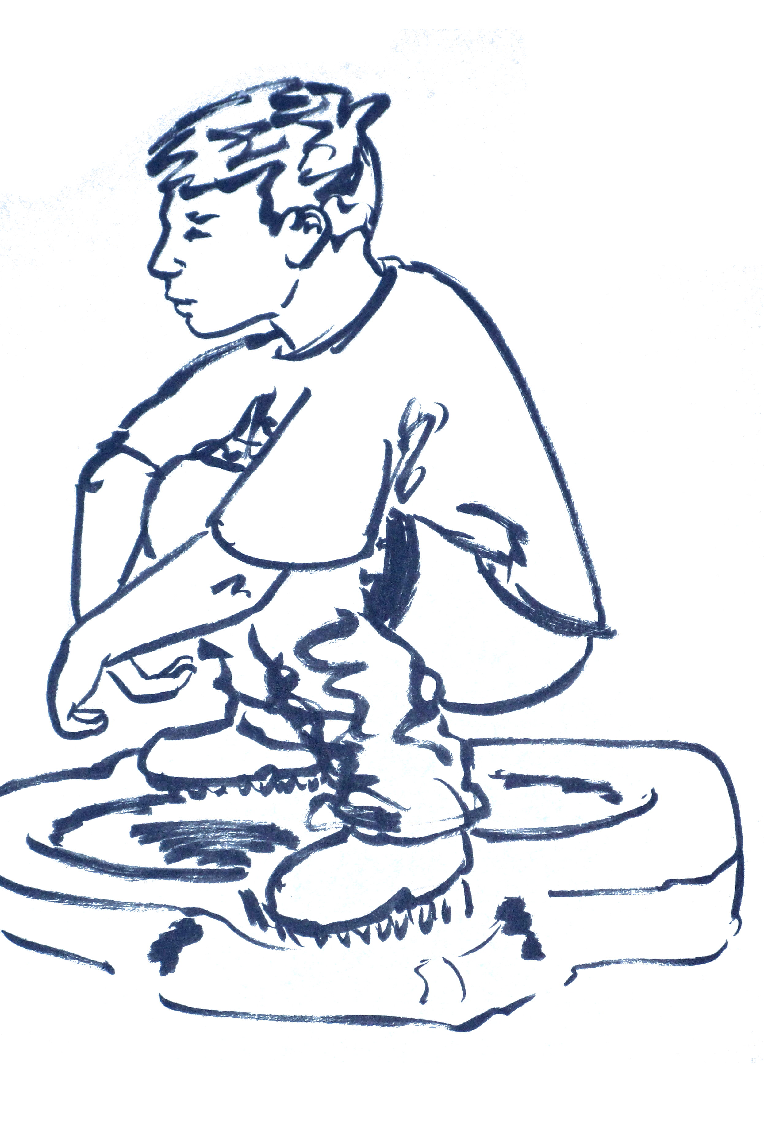 Defecation in the squatting position, as used in toilets of Eastern Asia notably